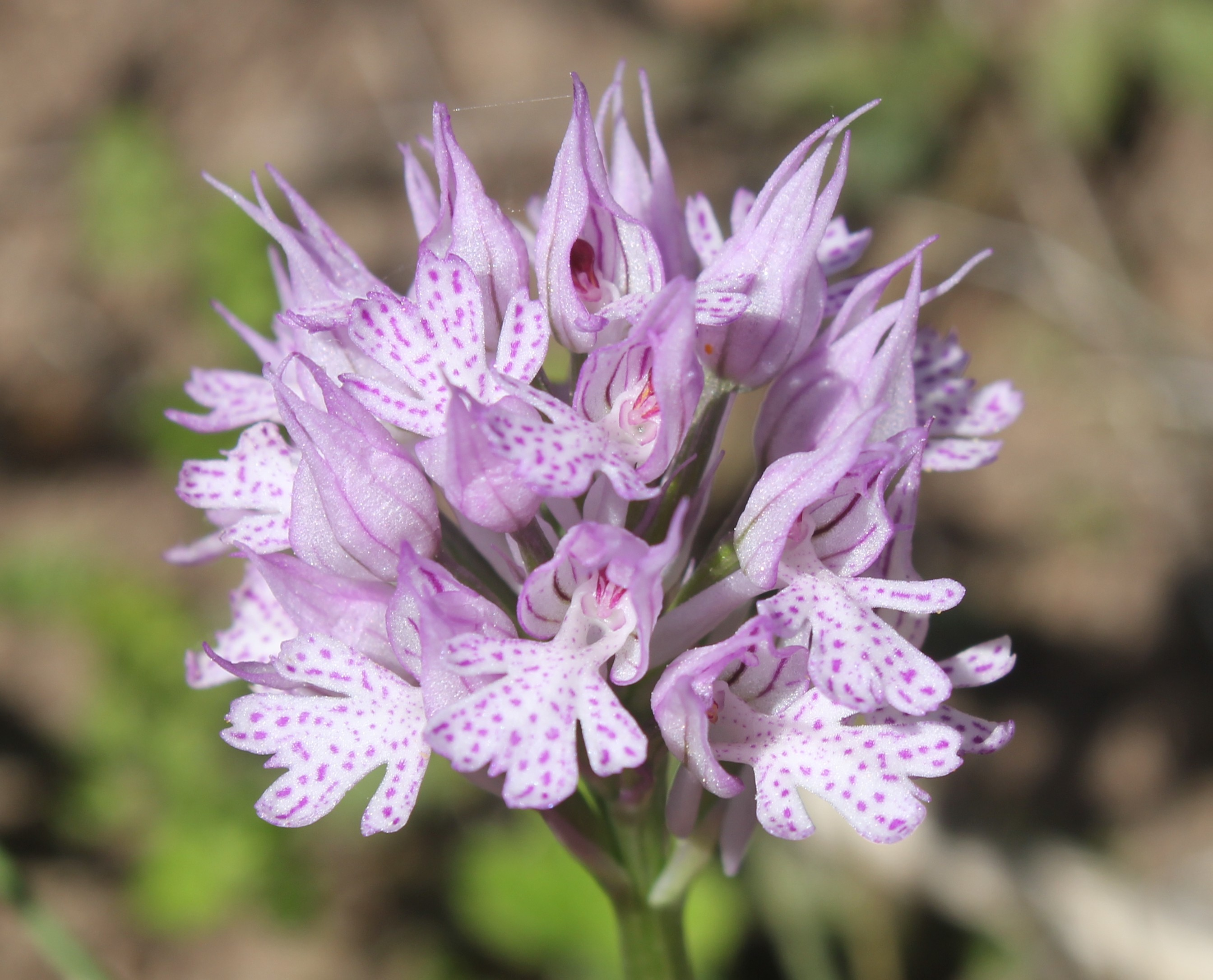 Neotinea tridentata inflorescence